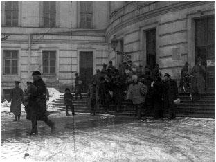 Delegates to the 11th Congress of the Russian Communist Party (Bolsheviks).